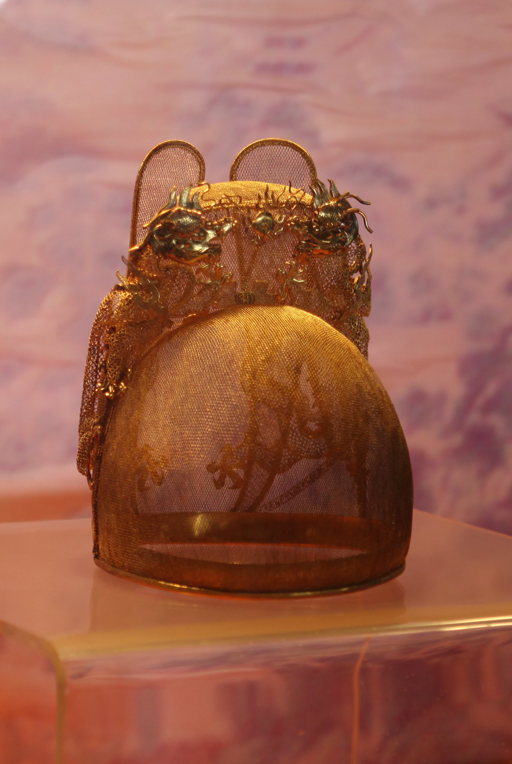 This photo was taken at Ling En Temple of Chang Ling. It shows a replica of the golden crown of Wanli Emperor (ca. 1600) of Ming Dynasty of China. The original piece was excavated from Ding Ling at 1960s and is on display at Ding Ling museum.